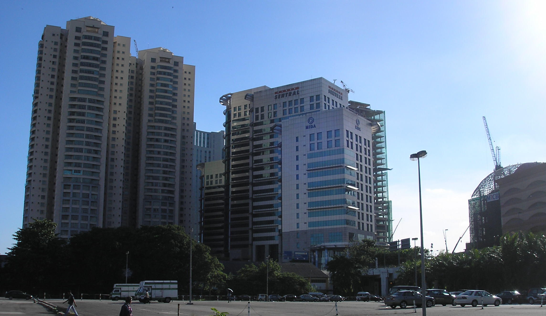 Skyscrapers constructed within the southwest side of the designated Kuala Lumpur Sentral area in Kuala Lumpur, Malaysia.